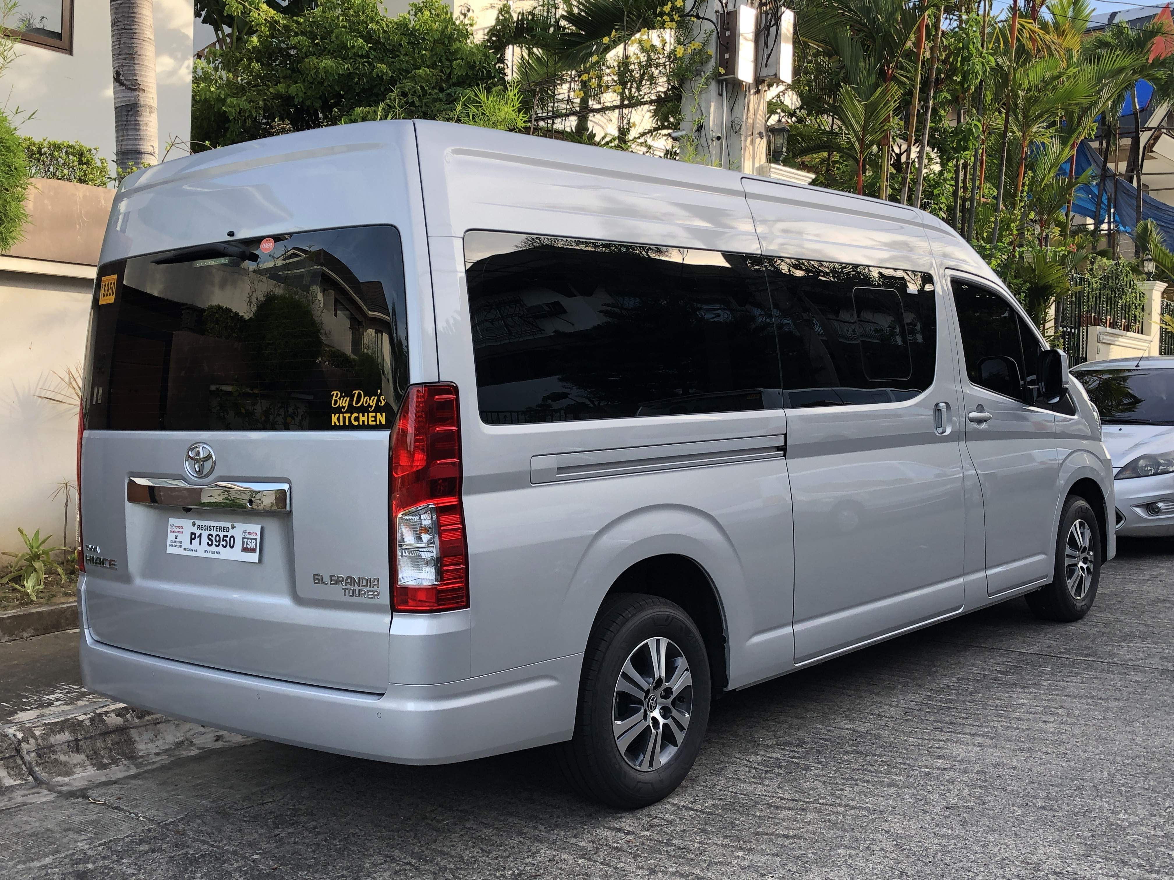 Rear side of the Toyota HiAce GL Grandia Tourer.